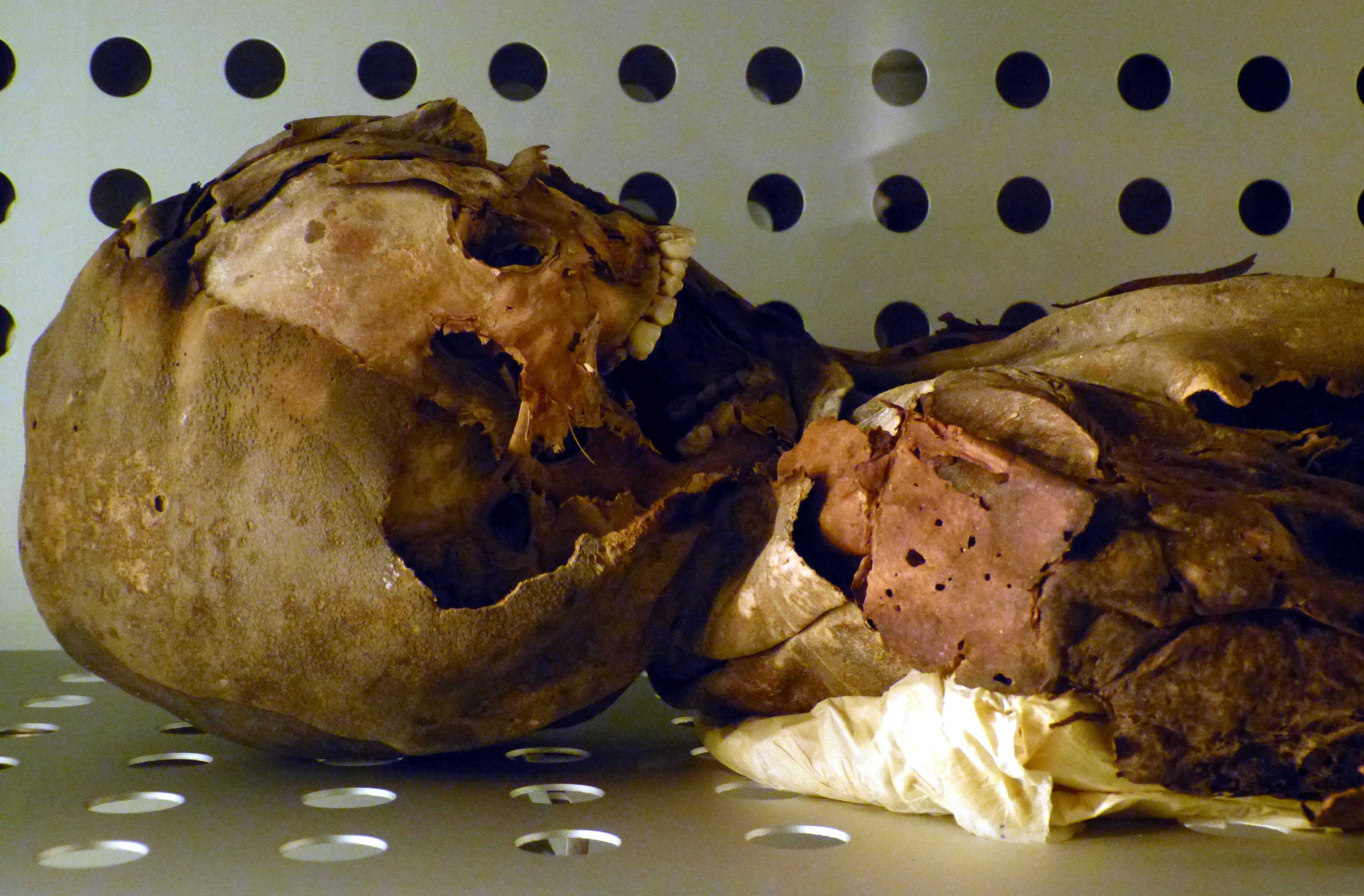 Santa Cruz de Tenerife ( Spain ). Museo de la Naturaleza y el Hombre - Guanche collections: Mummy ( 1420 AD ) of a child, 7-8 years old,covered with goat skin and goat cap, from Barranco de Infierno ( Adeje / Tenerife )